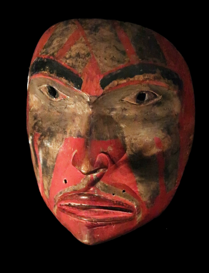 Tsimshian mask. 1850-1950. Wood, pigments. H. 20 cm. Inv. 1991-4-1